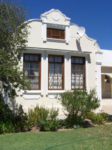 Hopefield High School in Hopefield, South Africa.